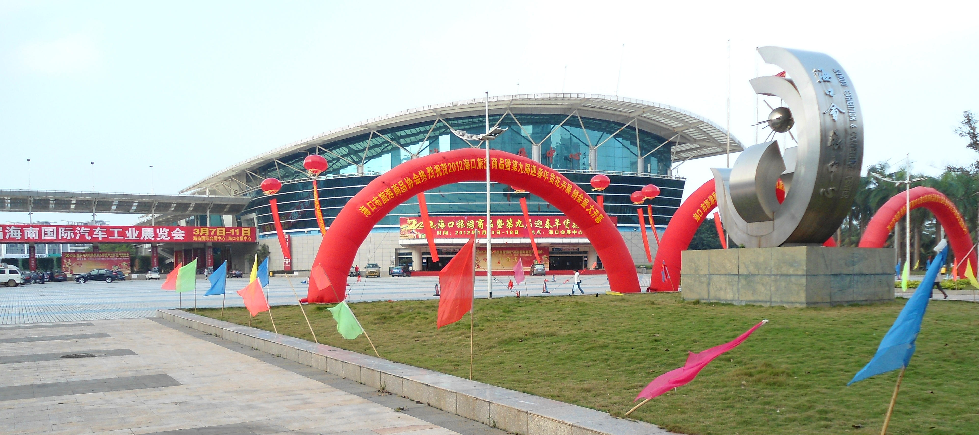 Hainan Exhibition & Convention Center, Haikou, Hainan Province, People's Republic of China